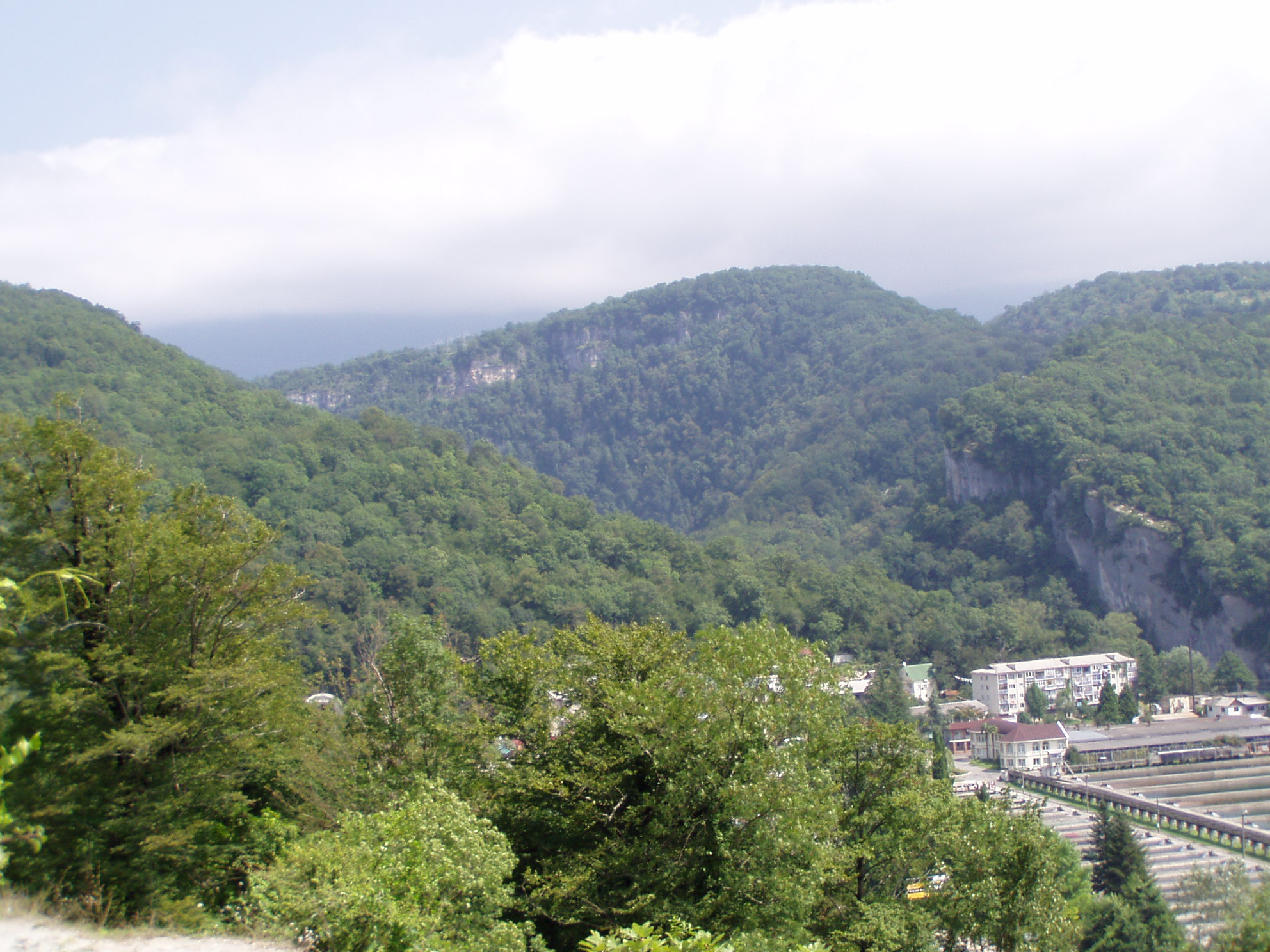 Akhshtyr Canyon, Sochi, Krasnodar Krai, Russia.